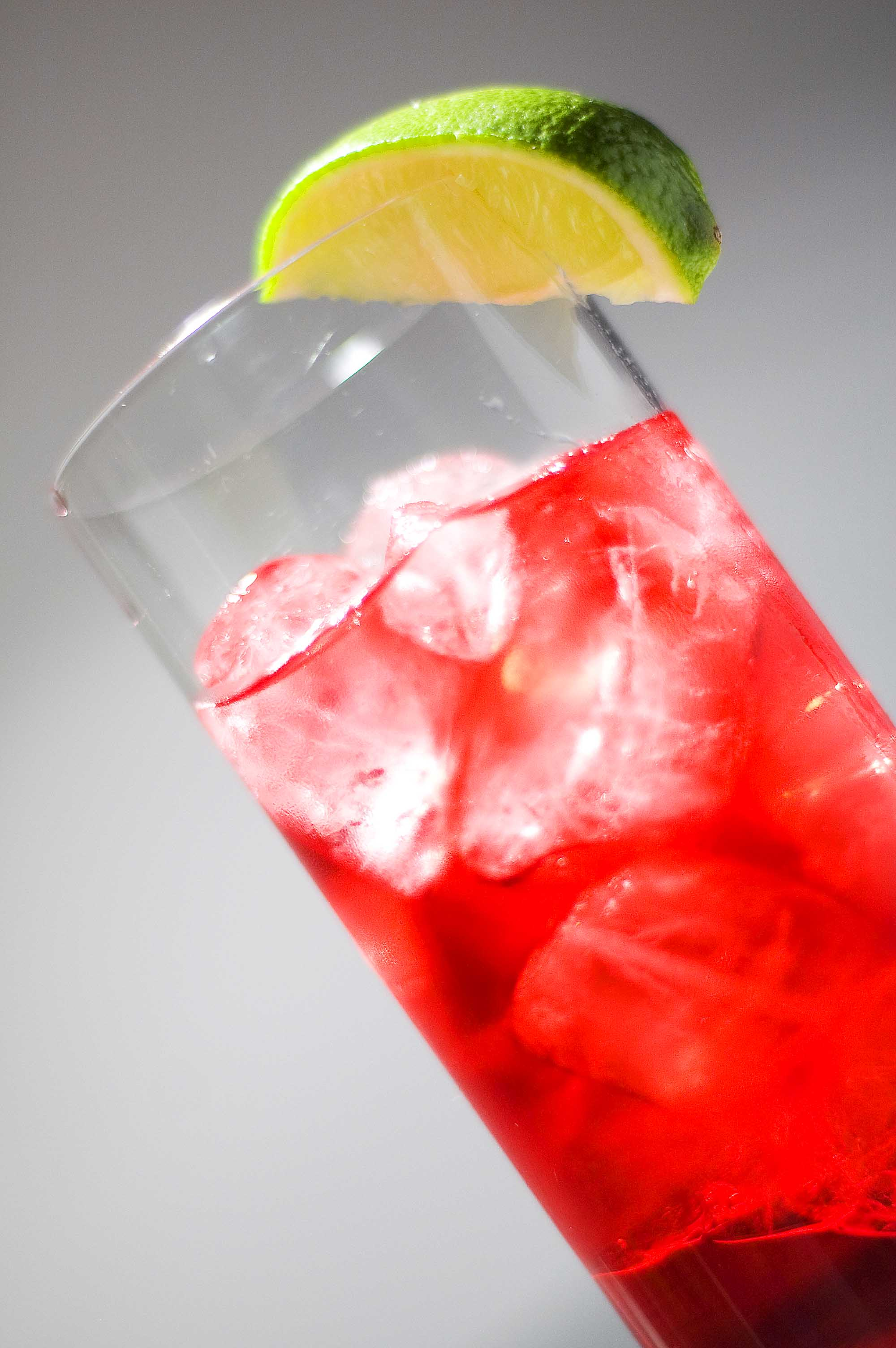 An old favourite tonight that I learnt when working at the Waldorf Hotel, a guest gave me the recipe which they'd got from a bartender at the Four Seasons in San Fransisco. Woo Woo 2 parts Vodka 1 part Peach Schnapps 4 parts Cranberry Juice Highball glass 3/4 filled with ice add all ingredients and stir. Garnish with a lime wedge. Enjoy